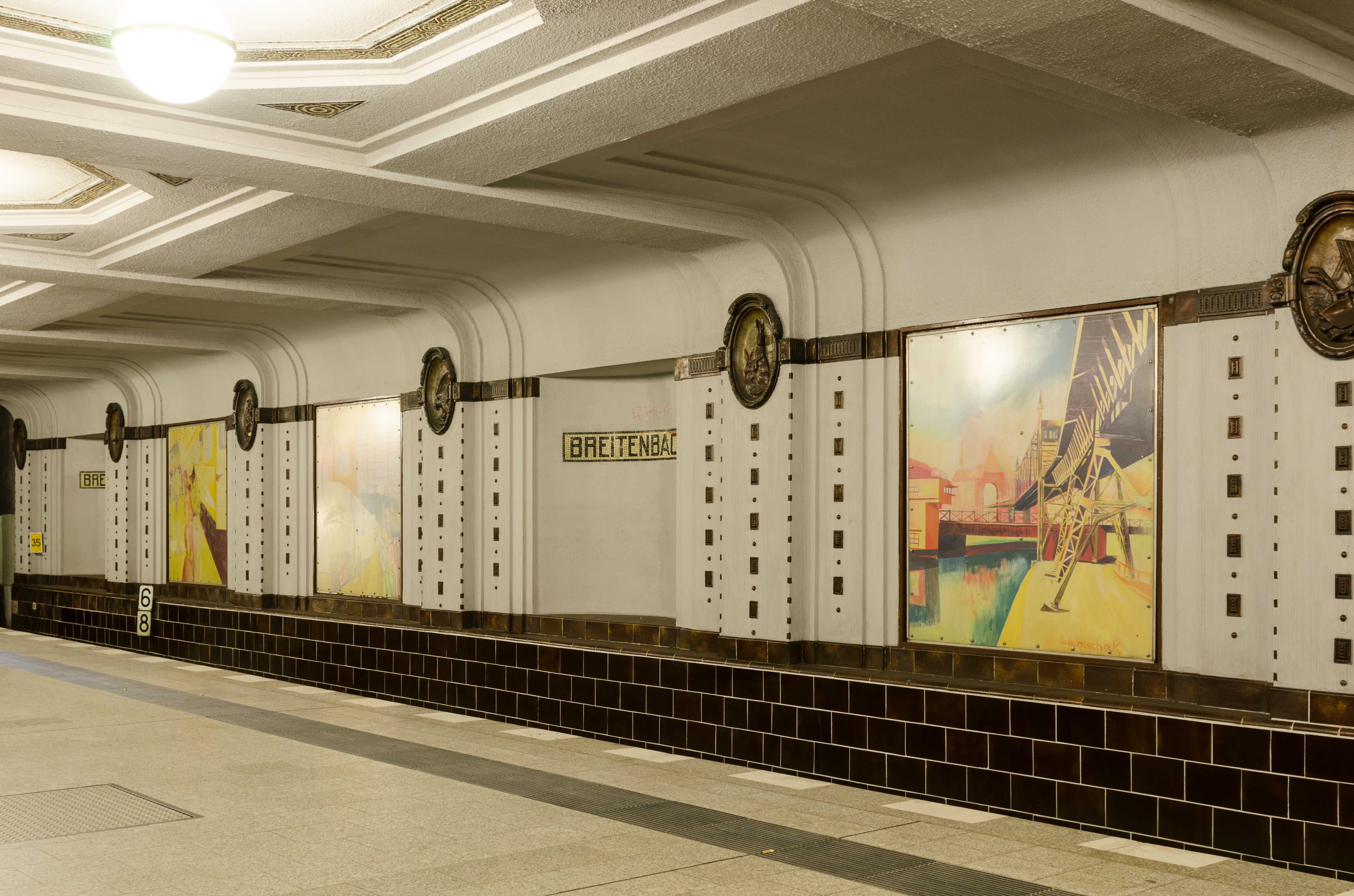 The Berlin subway station Breitenbachplatz located in Berlin-Dahlem